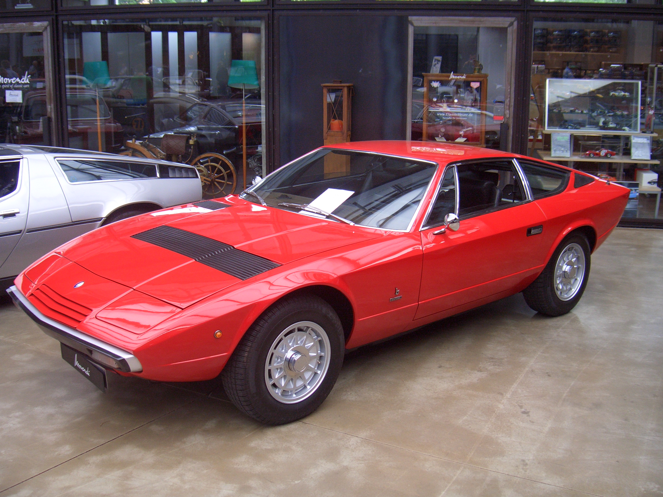 Maserati Khamsin, 1975, seen at CLASSIC REMISE, Düsseldorf, Germany